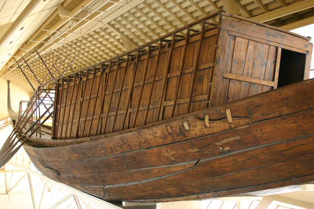 Solar bark of Kheops. Detail. Image taken by Alex Lbh in April 2005.